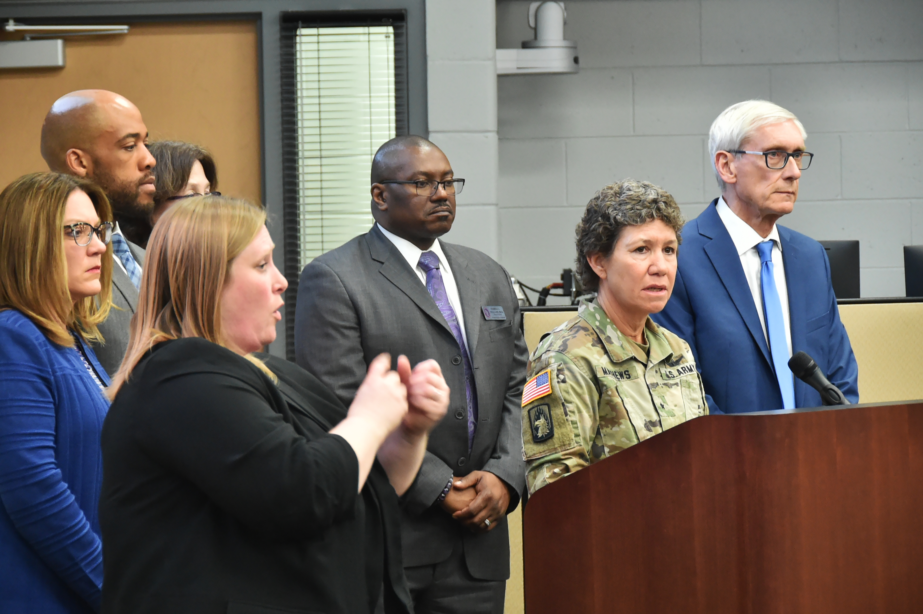 Brig. Gen. Joane Mathews, Wisconsin’s deputy adjutant general for Army, answers media questions during a March 12, 2020, press conference at the State Emergency Operations Center in Madison, Wis. Earlier in the day Evers declared a health emergency in response to the COVID-19 coronavirus. (Wisconsin Department of Military Affairs photo by Vaughn R. Larson)